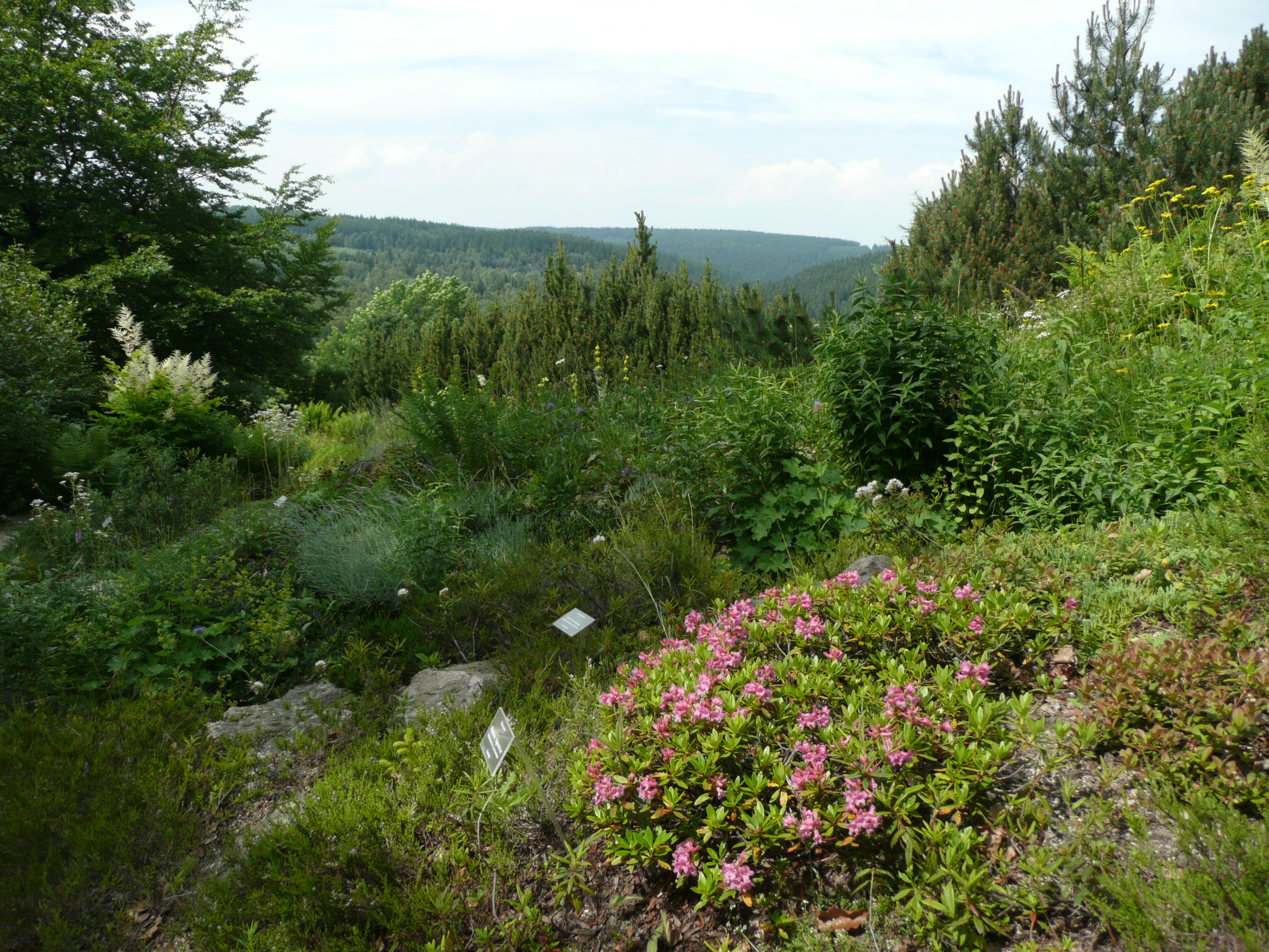 This image shows the botanic garden in Schellerhau near Altenberg in Saxony, Germany.